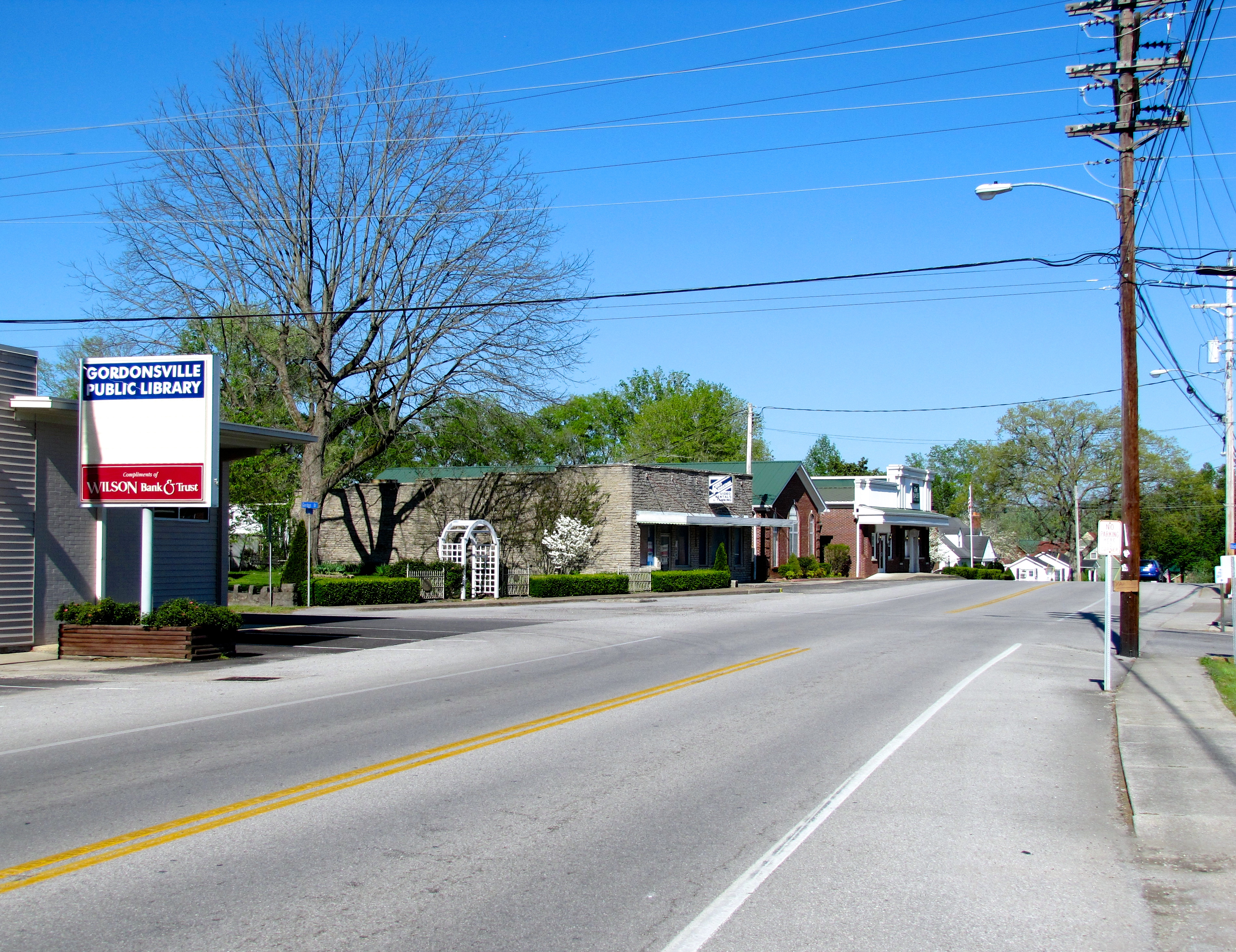 Main Street (SR 141 / SR 264) in Gordonsville, Tennessee, United States.